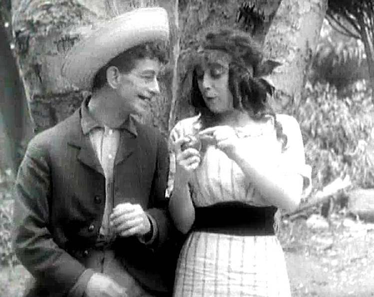 Won in a Closet (1914) is a black-and-white one-reel comedy film, notable as the first film directed by Mabel Normand. The source claims this is a scene from the film. This is a low resolution image and should be replaced with a higher resolution image when available.